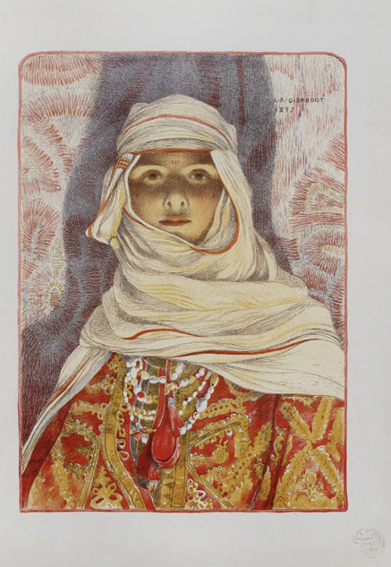 Femme du Riff by Louis-Auguste Girardot, lithographic print from L'Estampe moderne, vol. I, Paris, F. Champenois.